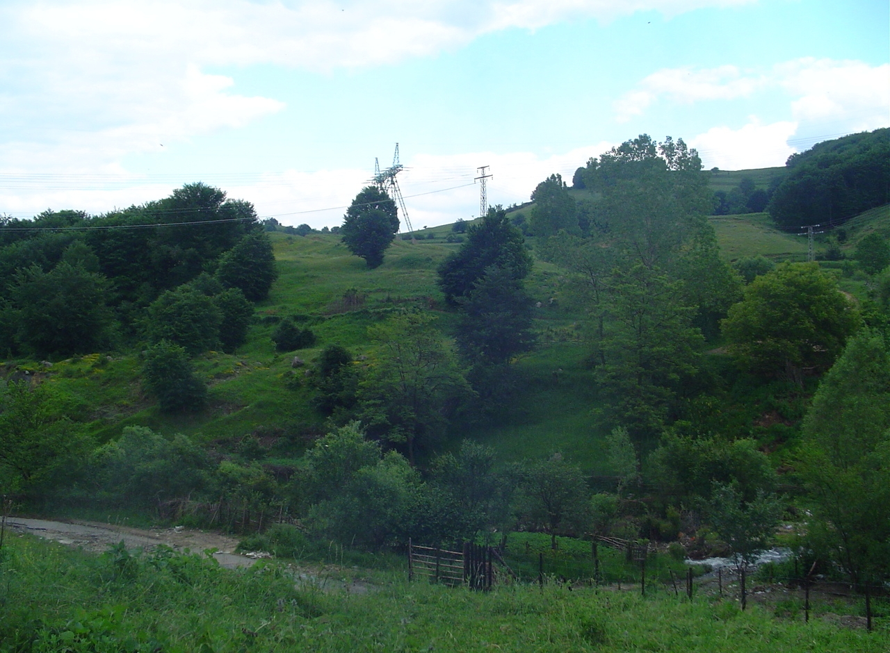 View of Plana mountain, Bulgaria